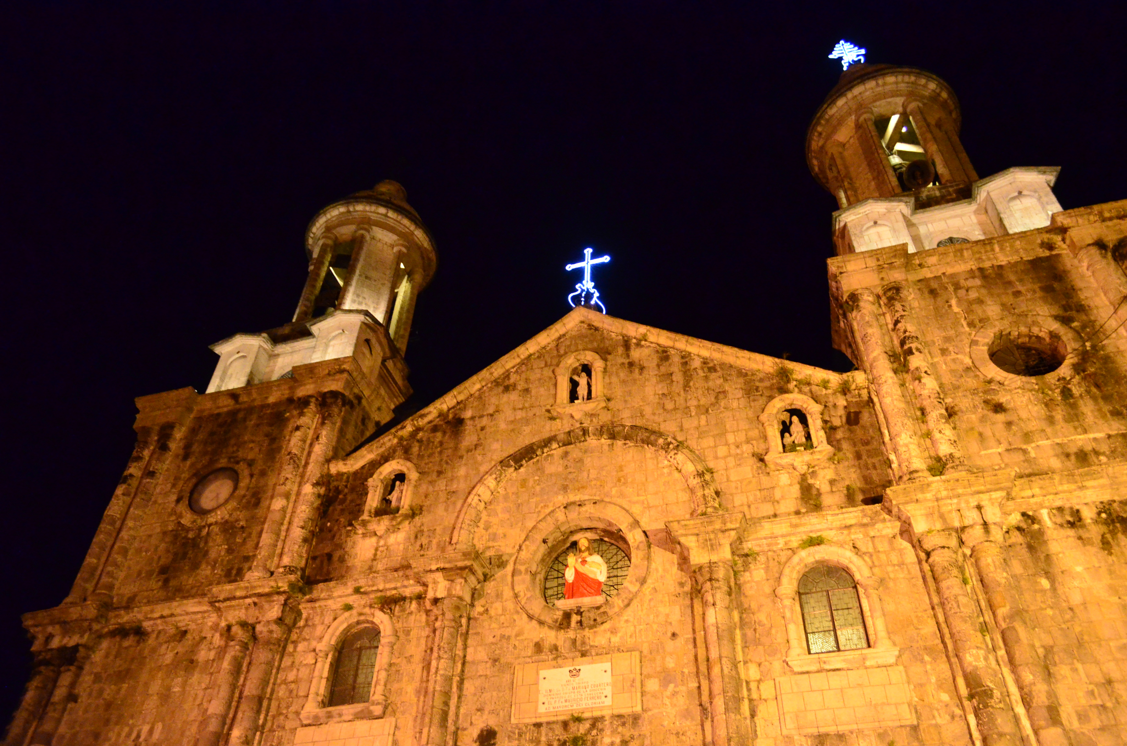 San Sebastian Cathedral, Bacolod, Negros Occidental